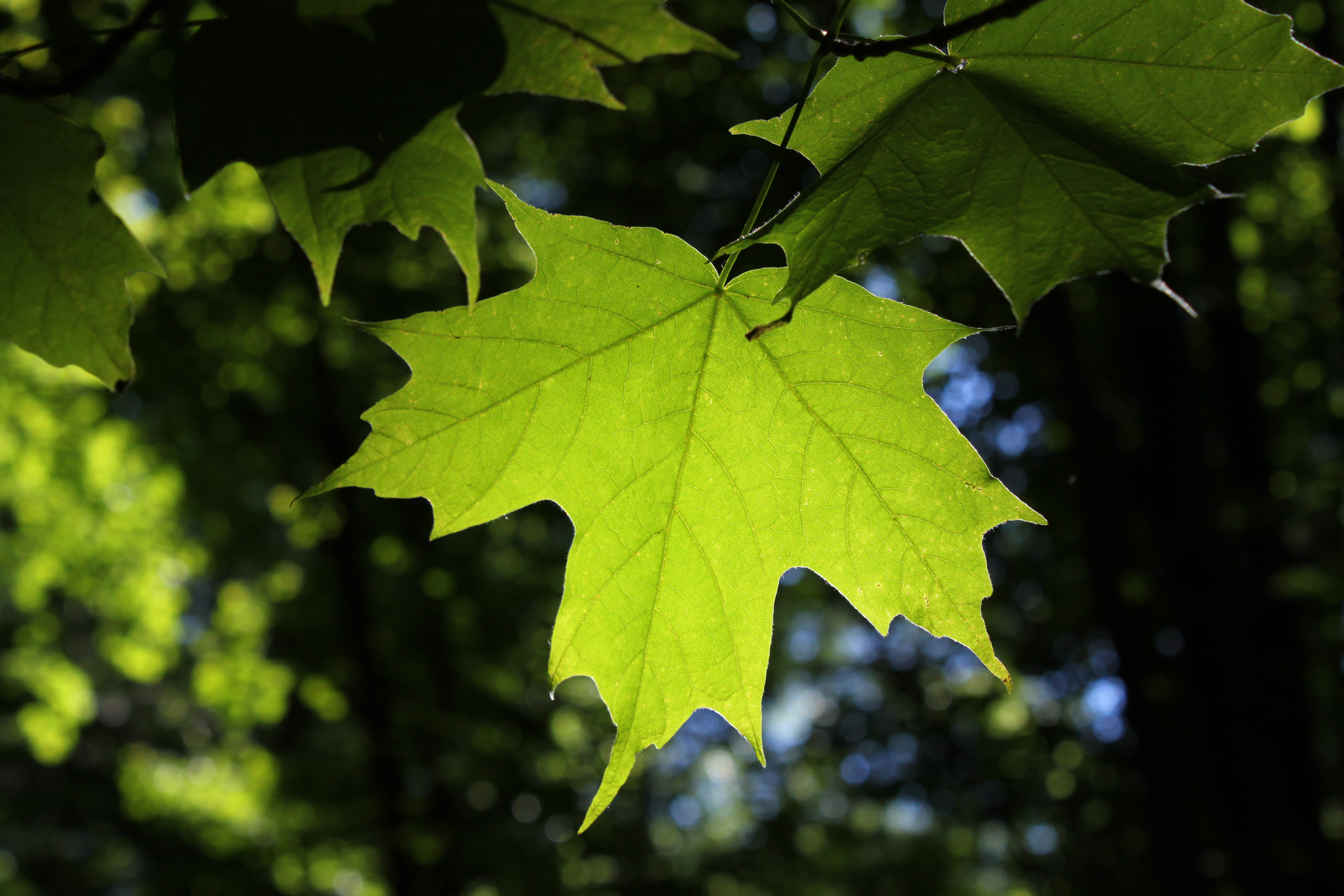 Sugar Maple (Acer saccharum ssp. saccharum) foliage in Rogów Arboretum, Poland